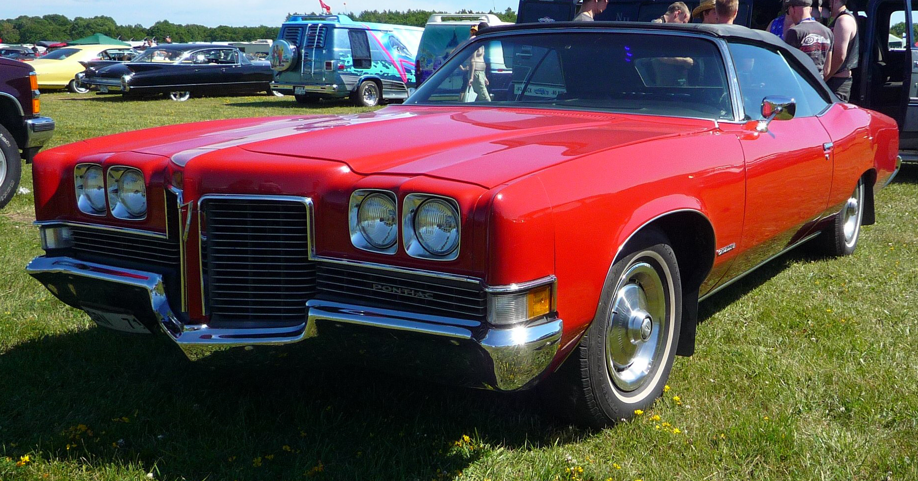 A 1971 Pontiac Catalina Convertible, with the base 350 V8